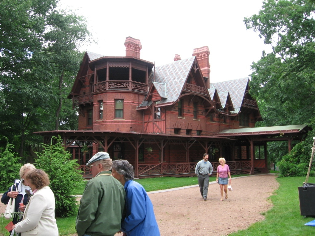 South view of Mark Twain House